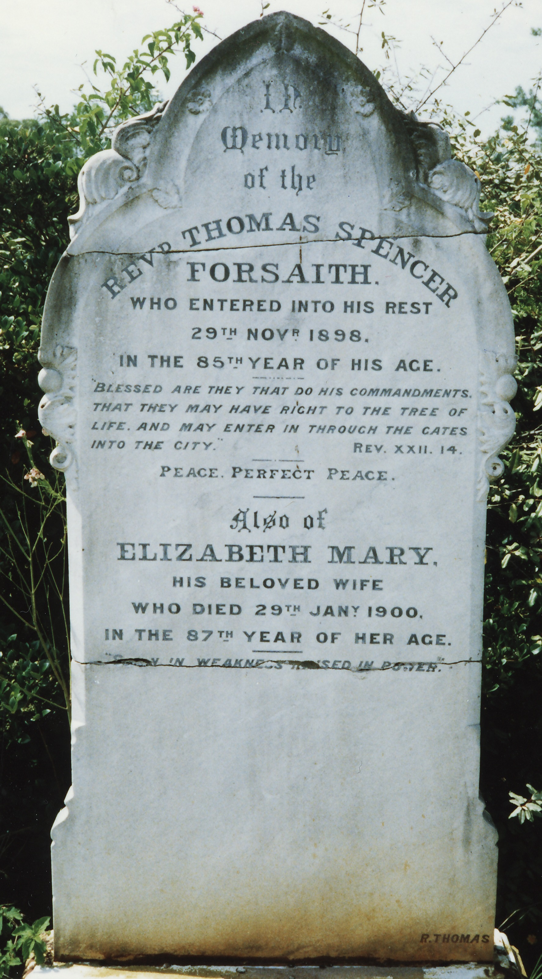 Grave - Thomas S FORSAITH (1814-1898) and Elizabeth (nee CLEMENTS)(1813-1900), Rookwood Cemetery, Sydney, Australia